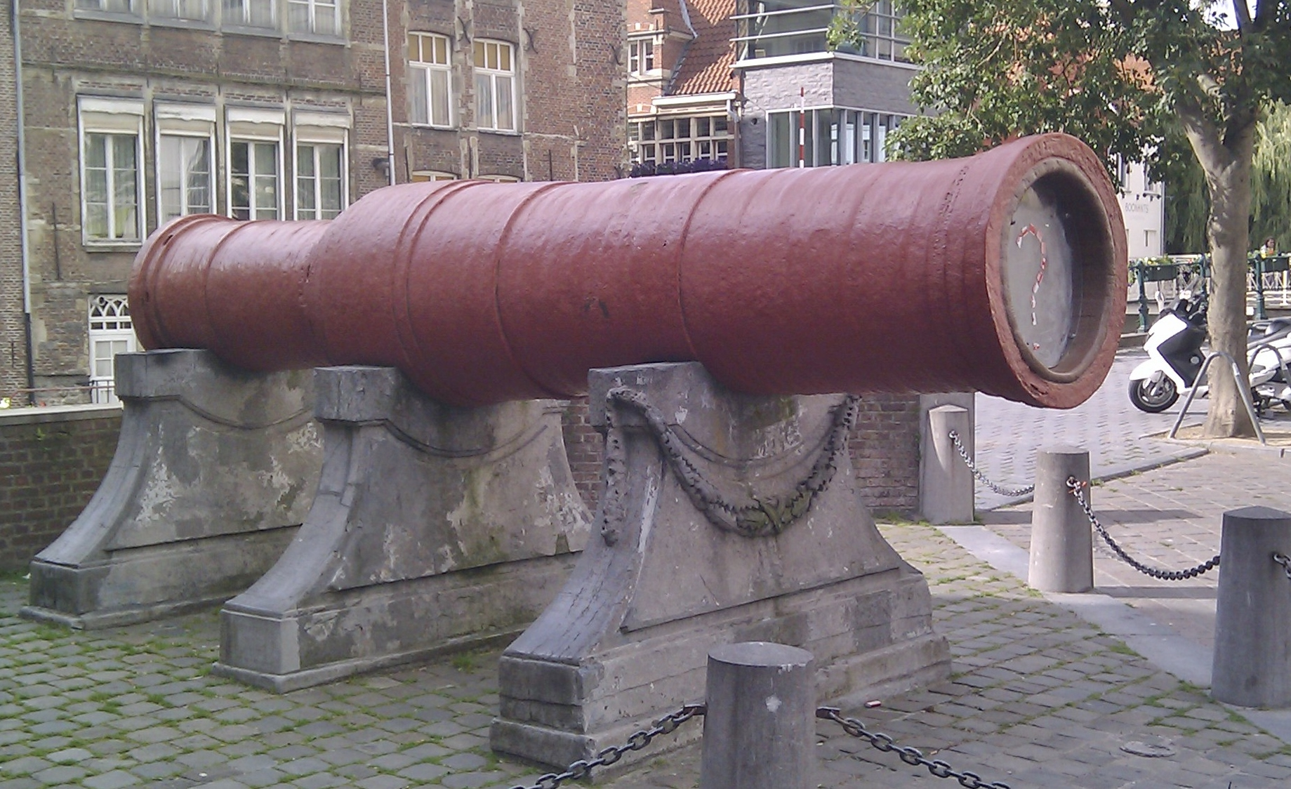 The 'Dulle Griet' or 'Mad Meg' is named after the Flemish folklore figure Dull Gret. It is a medieval supergun, a wrought-iron bombard constructed in the 15th century from 32 longitudinal bars enclosed by 61 rings.